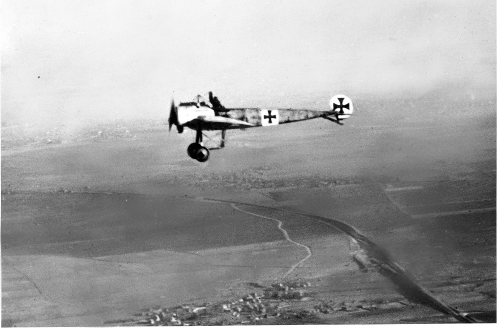 PictionID:43637809 - Title:Fokker E I - Catalog:16_004552 - Filename:16_004552.TIF - - - - - - - Image from the Ray Wagner Collection. Ray Wagner was Archivist at the San Diego Air and Space Museum for several years and is an author of several books on aviation --- ---Please Tag these images so that the information can be permanently stored with the digital file.---Repository: San Diego Air and Space Museum